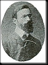 Portrait of IMARO member Georgi Bajdarov